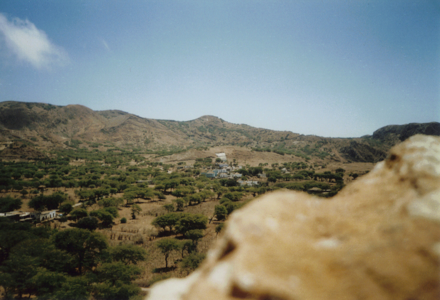 Campo Baixo, general view, Brava, Cabo Verde.